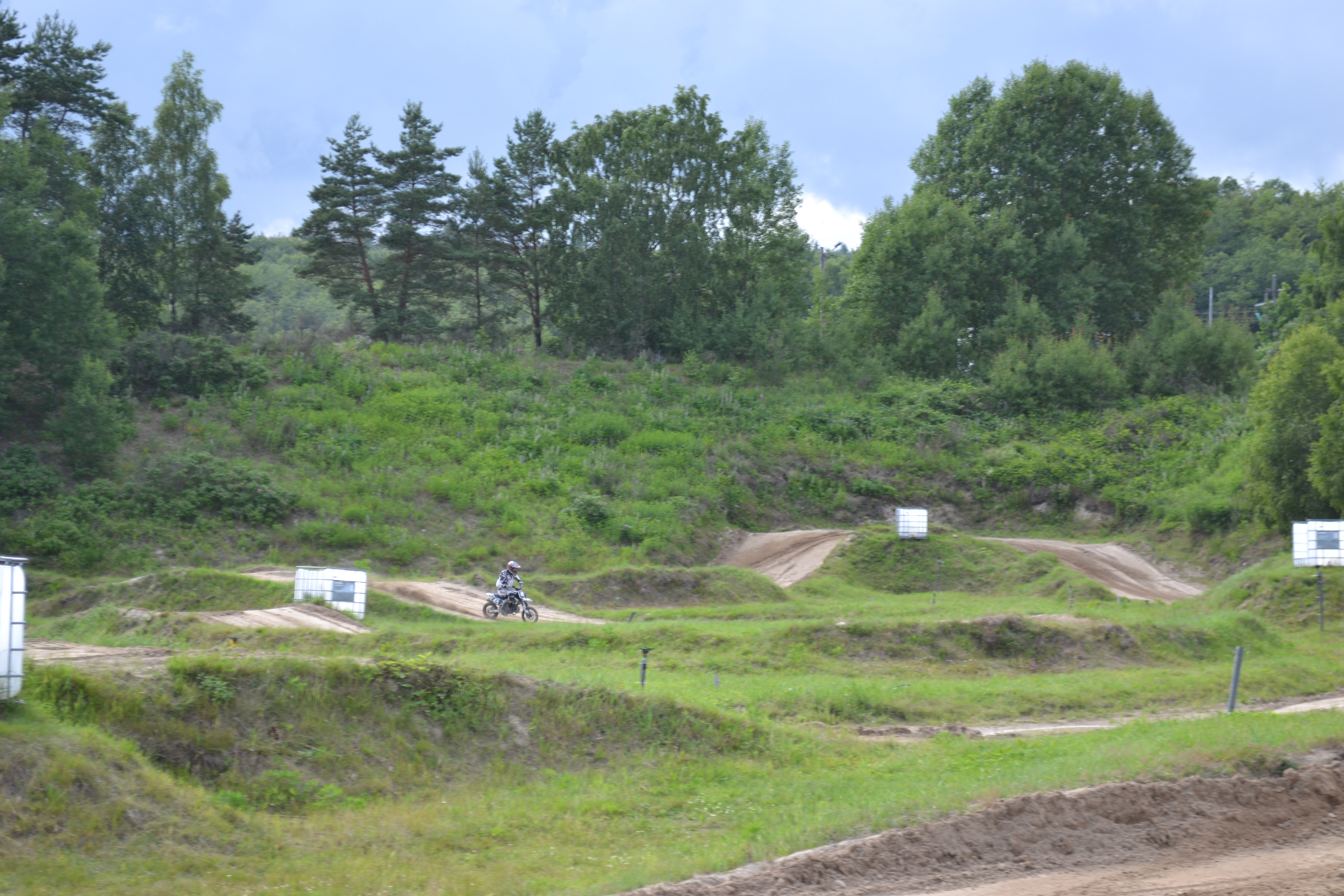 part of the fiddy track Ljungrydabanan in Olofström, Sweden. Club: Mk Jämke, driver Ronny Andersson